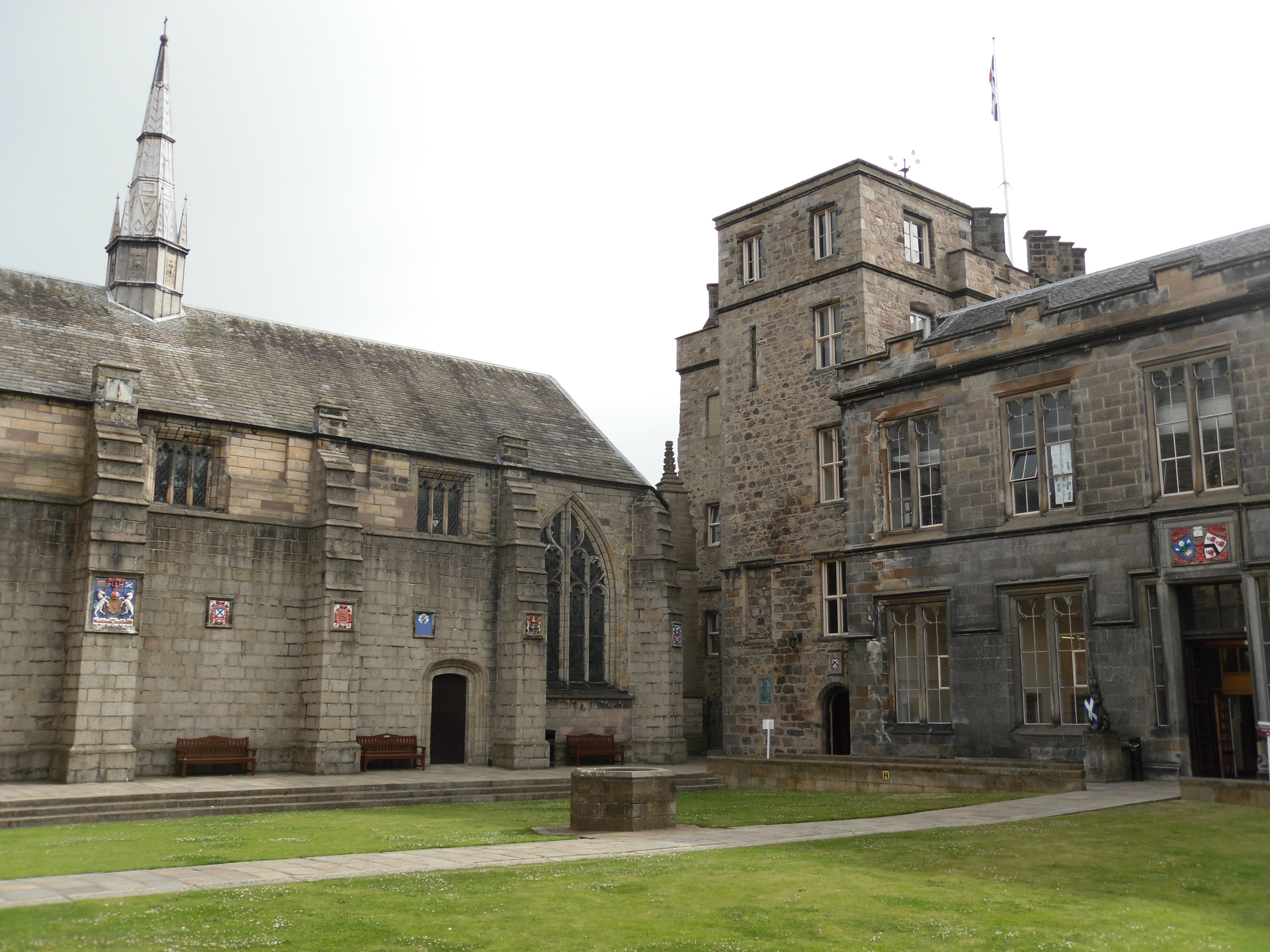 The King's College quadrangle at the University of Aberdeen.